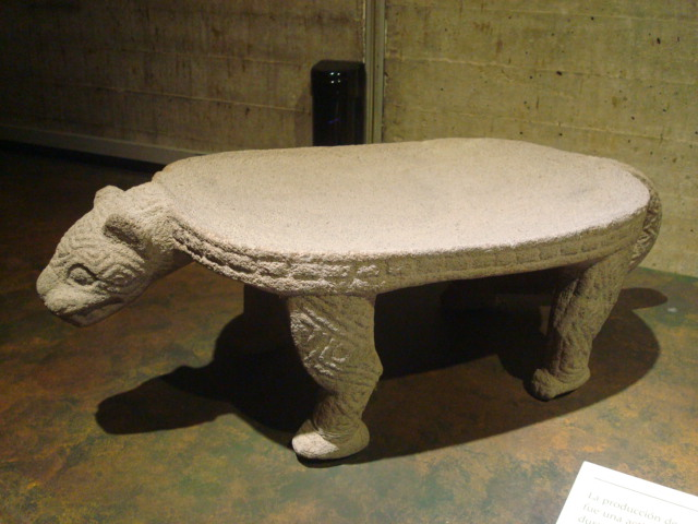 Stone metate shaped like a jaguar, from South Pacific of Costa Rica, Great Chiriqui archaeological area, 700-1550. Central Bank of Costa Rica colection. Felines in Pre-Columbian Archaeology of Costa Rica Exhibition. Museo del Oro Precolombino, San Jose, Costa Rica.